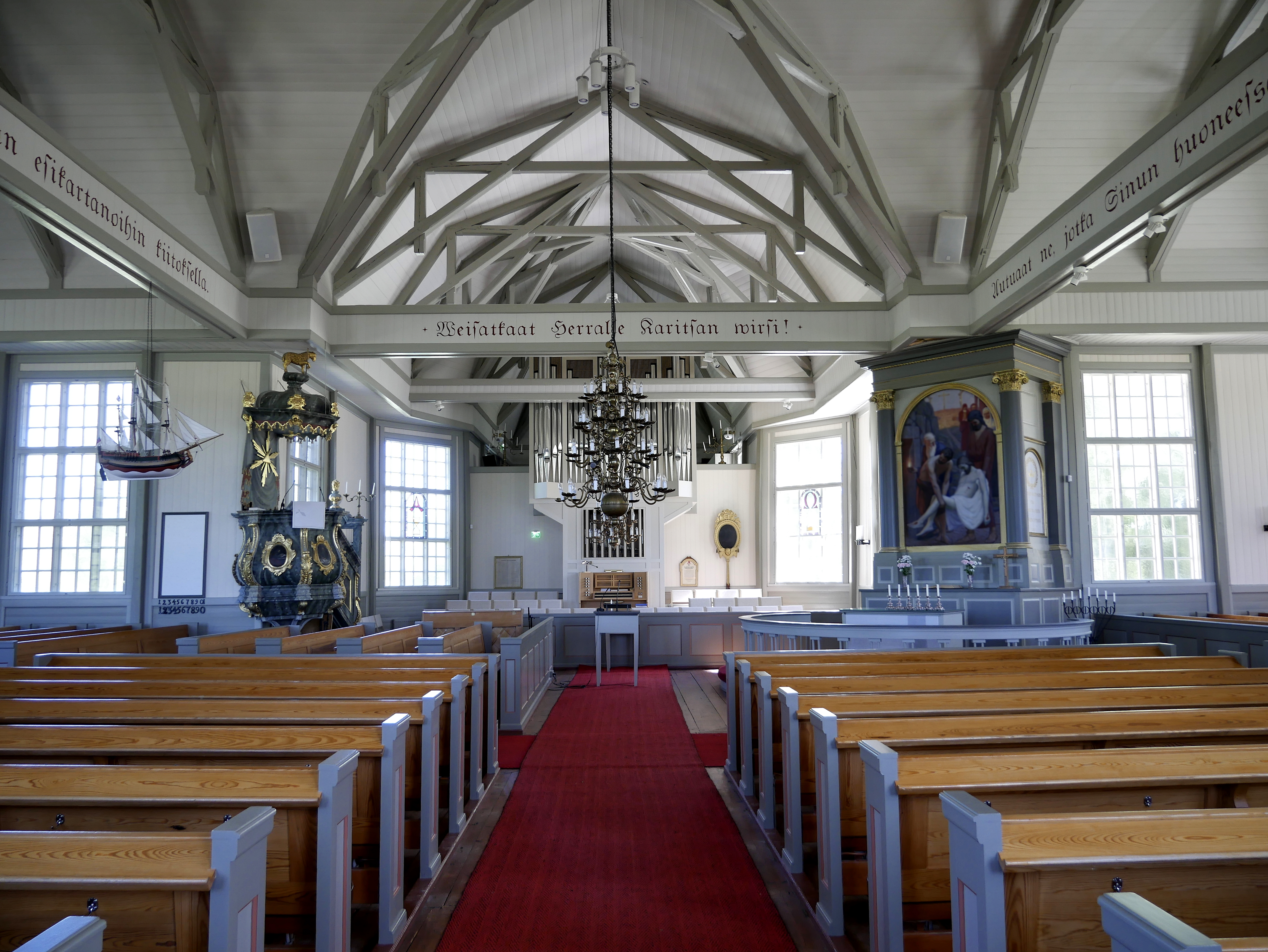 Interior of Lappajärvi Church.